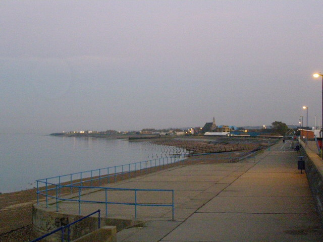 Sheerness beach looking toward Jacob's Bank